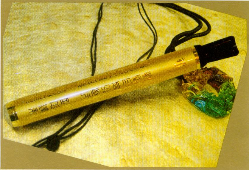 The copyright of electronic cigar(first generation) of Ruyan is protected by Ruyan group holding ltd and.The picture illustrates the electronic cigar(first generation) of the company which is described in this article.I've got permission to release it